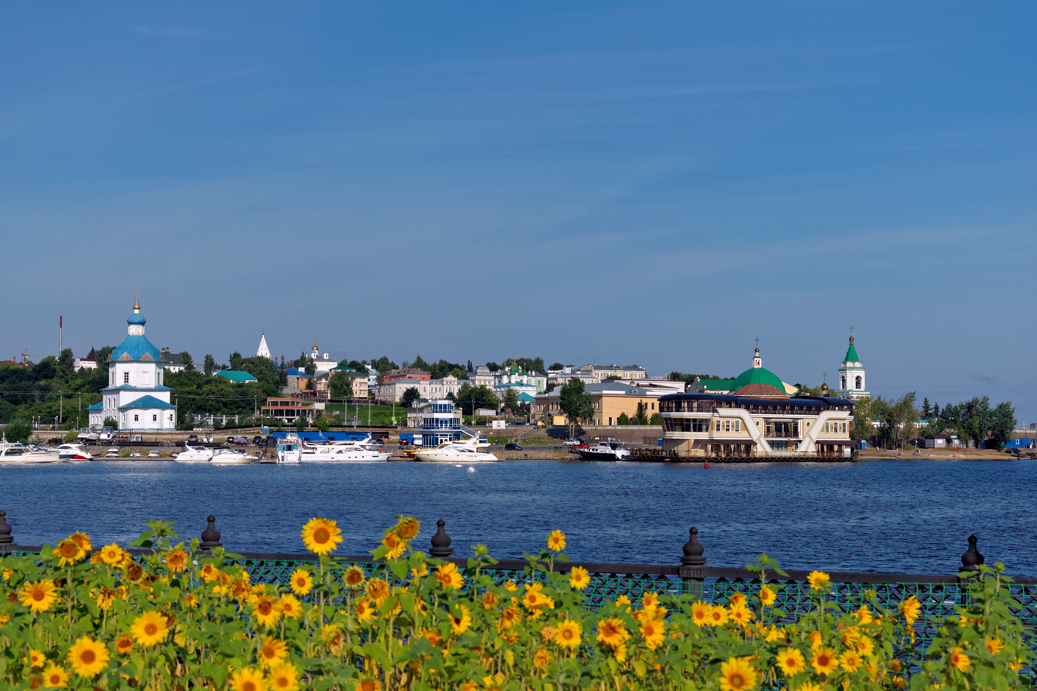 Cheboksary